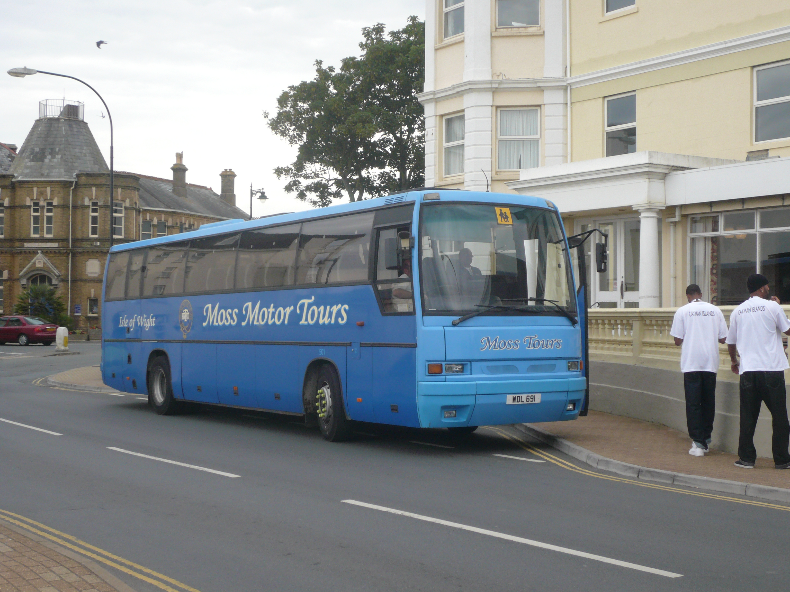 Southern Vectis 501 Bordwood Legde (WDL 691), a DAF SB3000/Ikarus Blue Danube 350, parked in off Culver Parade, Sandown, Isle of Wight picking up participants for the Island Games 2011 ready to shuttle them to venues.